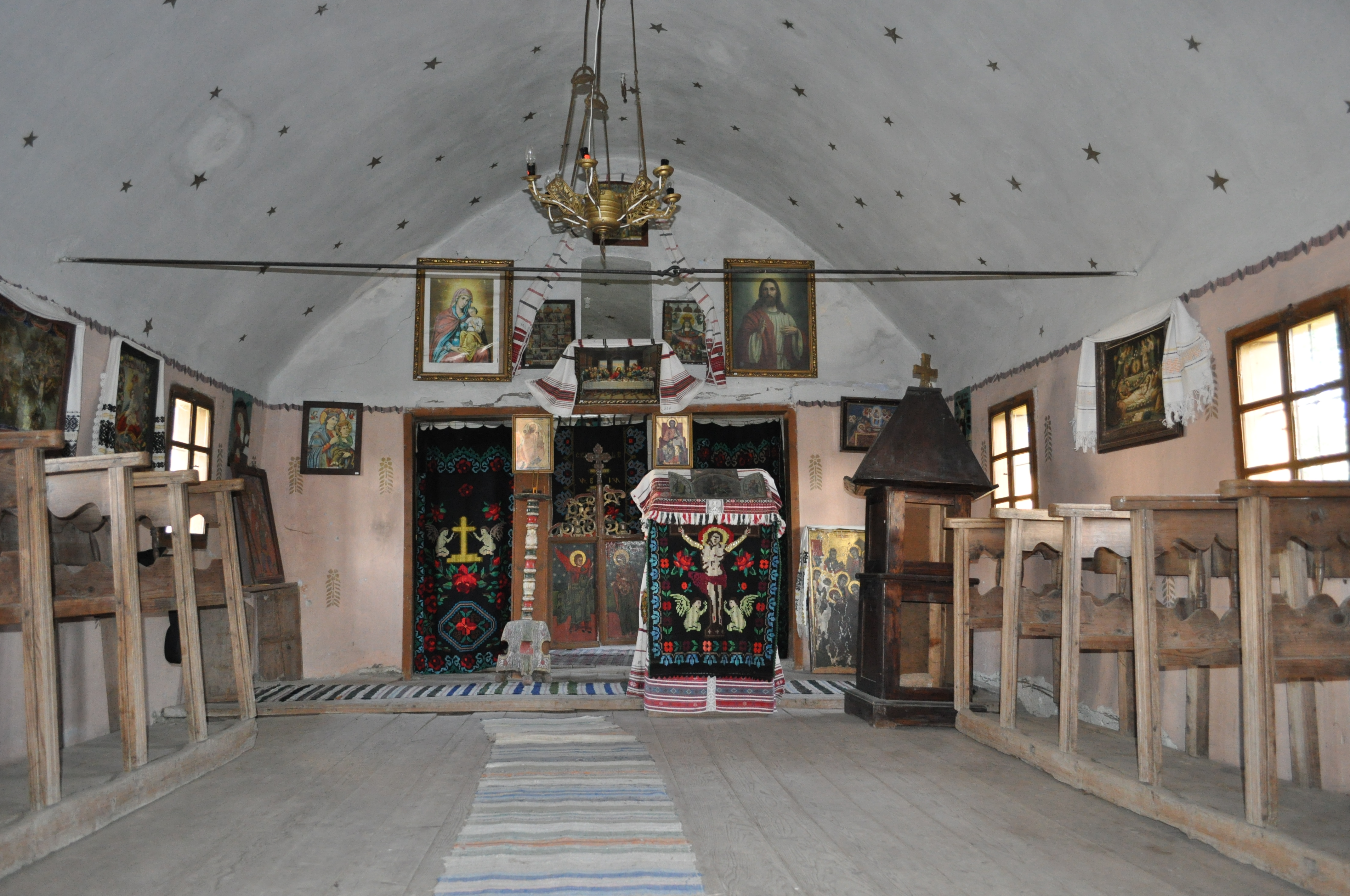 The wooden church in Săsăuș, Sibiu county, Romania